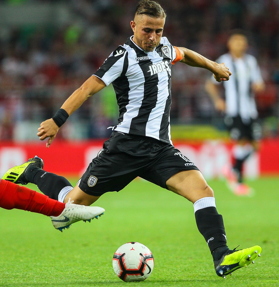 Spartak Moscow VS. PAOK 14 august 2018